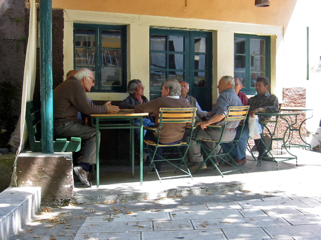 Group of men in a Kafenio, Liapades, Corfu, Greece